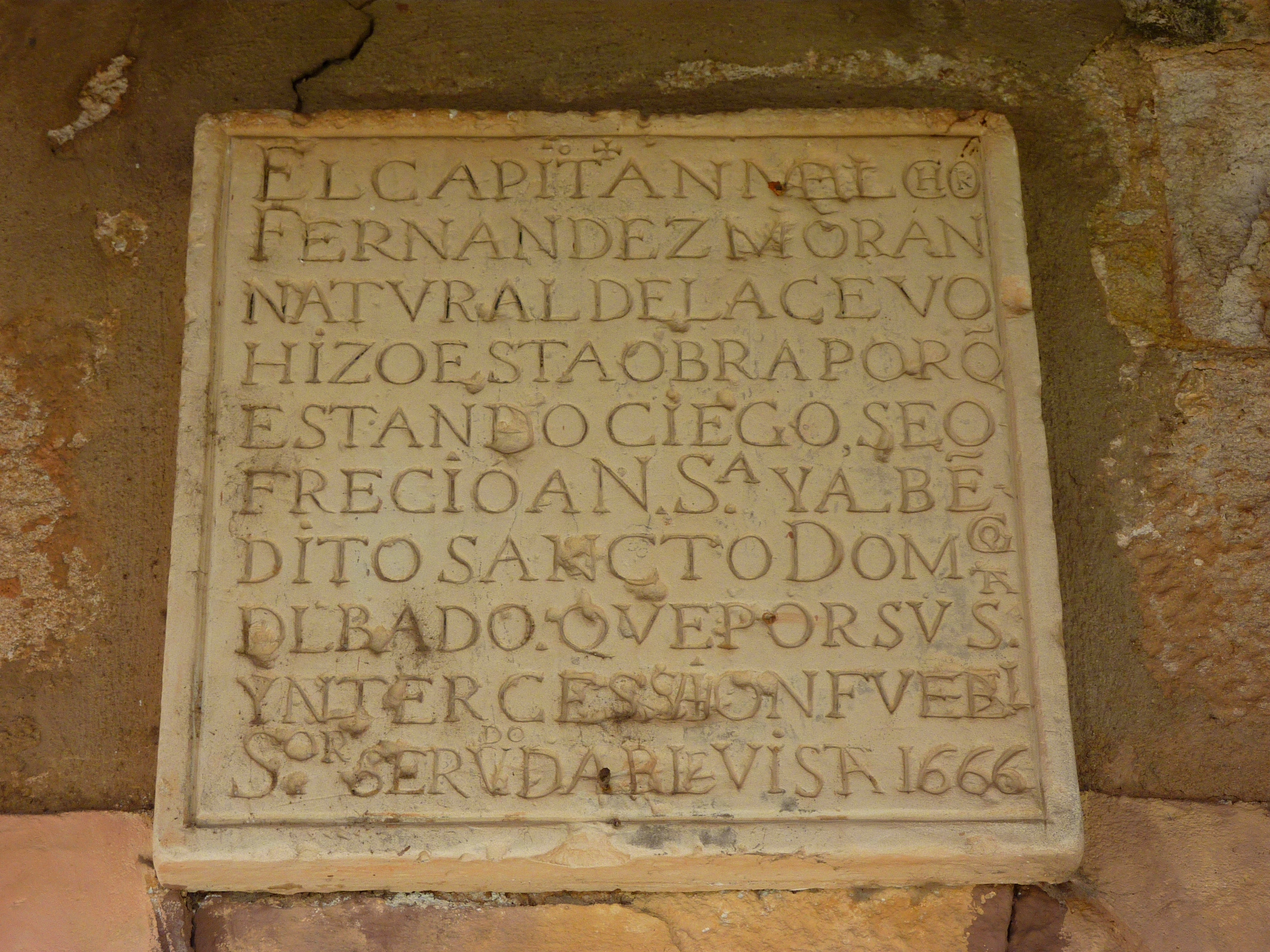 Chapel of Our Lady of the Peña de Francia, Zamora, Spain (commemorative tablet).